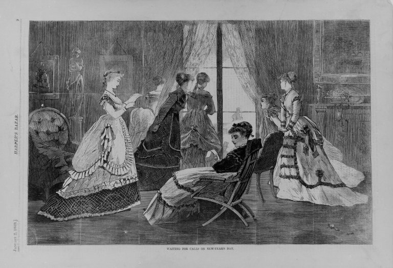 Published in Harper's Bazaar, 2 January 1869.